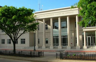 Photo taken by me, Jeff Hendrickson